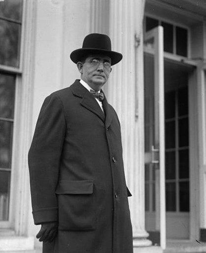 William Jason Fields (1874 – 1954) U.S. Representative and Governor of Kentucky